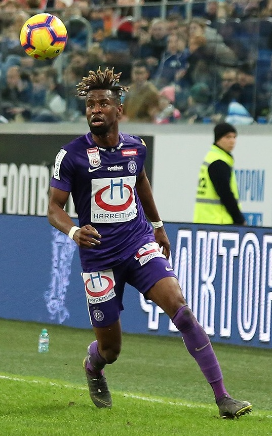 Bright Edomwonyi with FK Austria Wien during a friendly game against FC Zenit Saint Petersburg.